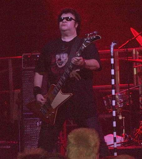 Chris Glen, playing with The Sensational Alex Harvey Band. December, 2007.